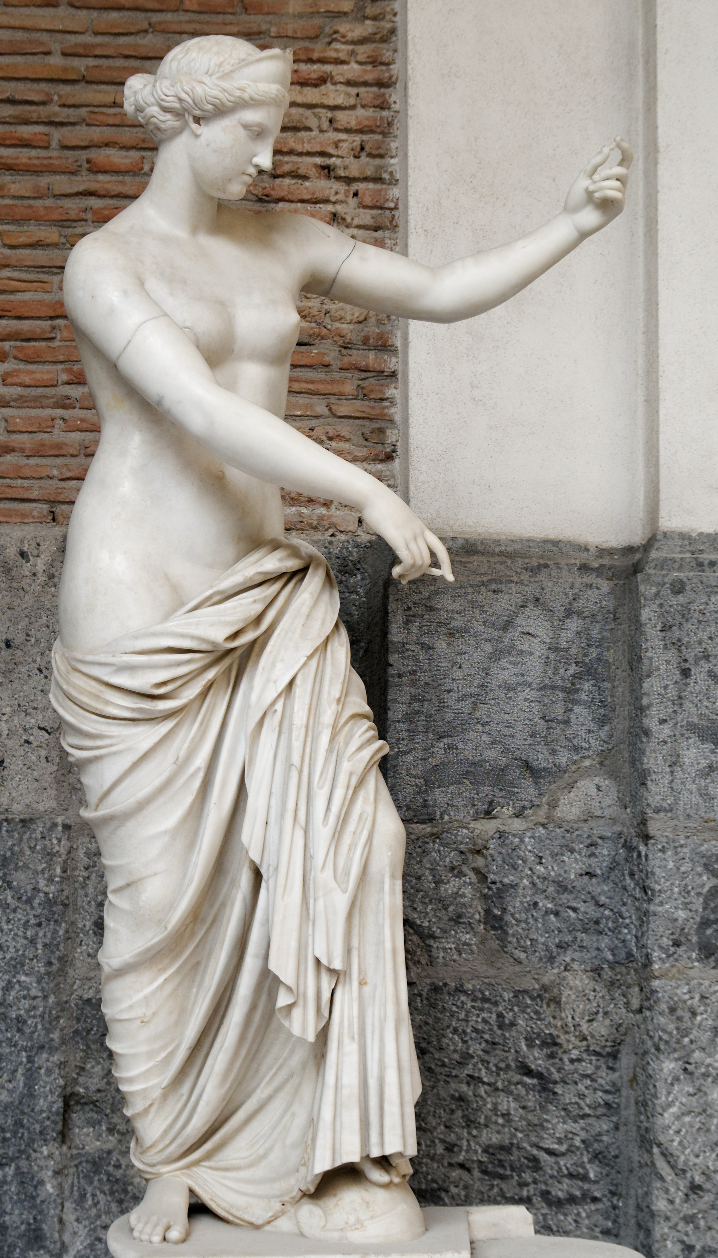 Statue of Aphrodite admiring her reflection in a mirror or in Ares' shield. Roman copy after an Early Hellenistic original.